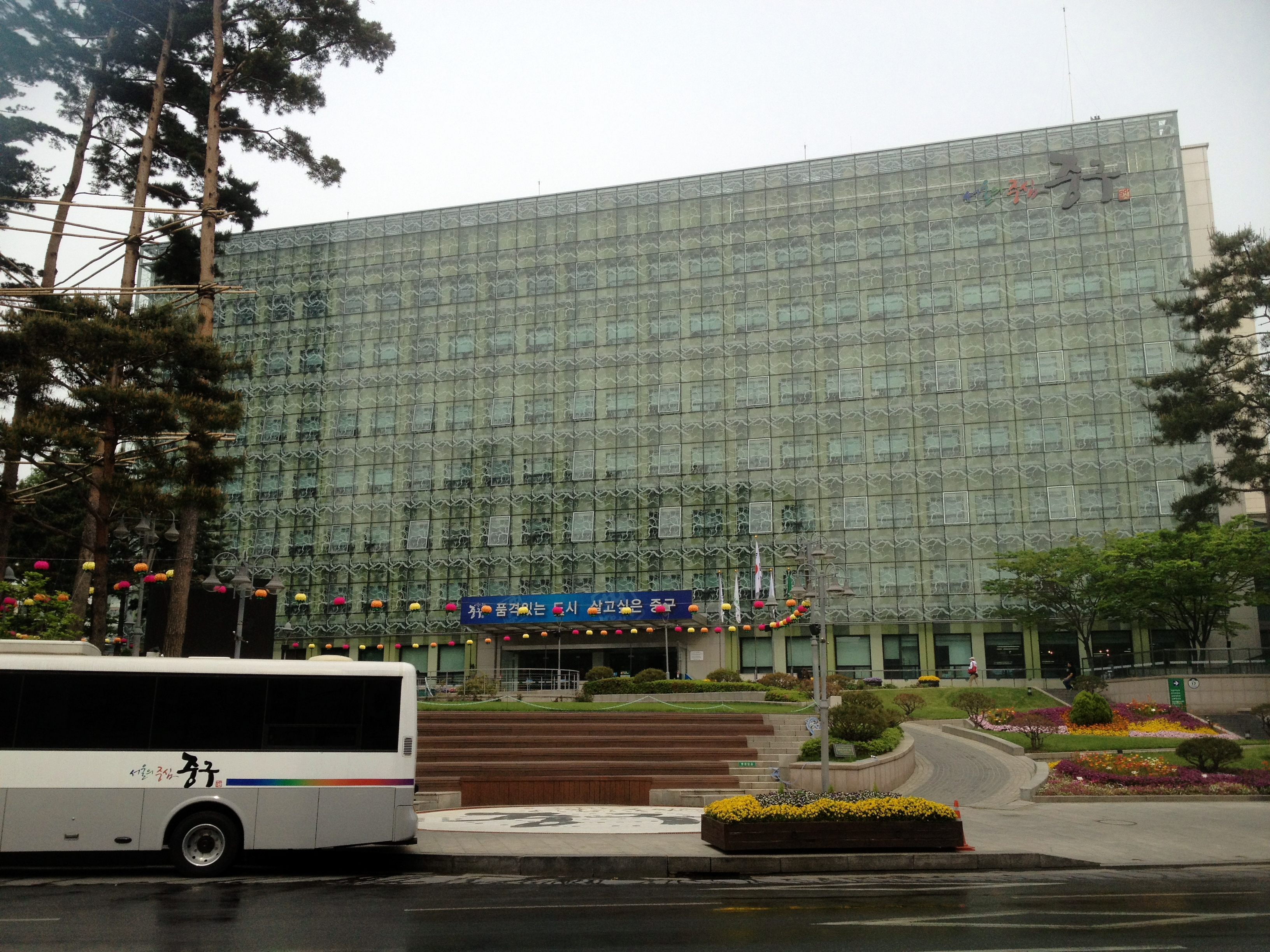 Jung-gu Office(Seoul Special City)